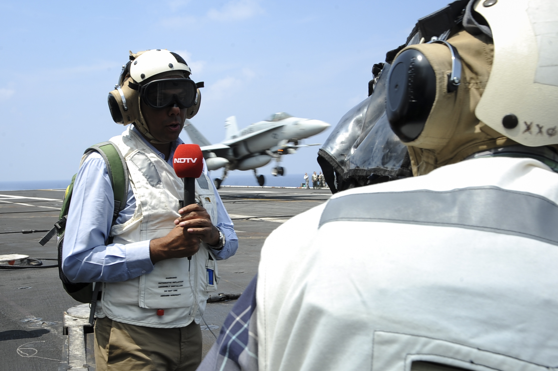 151017-N-GR120-200 INDIAN OCEAN (Oct. 17, 2015) Media outlets embarked aboard the aircraft carrier USS Theodore Roosevelt (CVN 71) film flight operations during Exercise Malabar 2015. Malabar is a continuing series of complex, high-end war fighting exercises conducted to advance multi-national maritime relationships and mutual security. The aircraft carrier USS Theodore Roosevelt (CVN 71) is operating in the U.S. 7th Fleet area of operations as part of a worldwide deployment en route to its new homeport in San Diego to complete a three-carrier homeport shift. (U.S. Navy photo by Mass Communication Specialist 3rd Class Anna Van Nuys/Released)